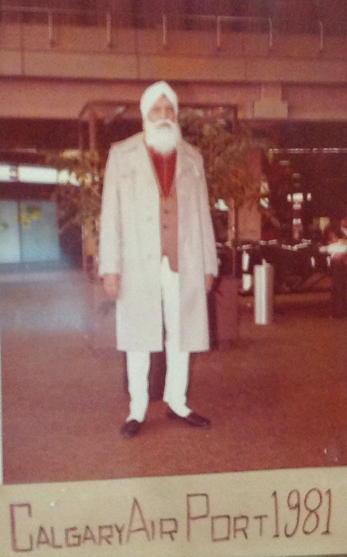 Photo of famous Sikh who founded movement of periodic Sikh Sangat at locations in India and abroad originating from Dodra village , Distt. Mansa,Punjab , India